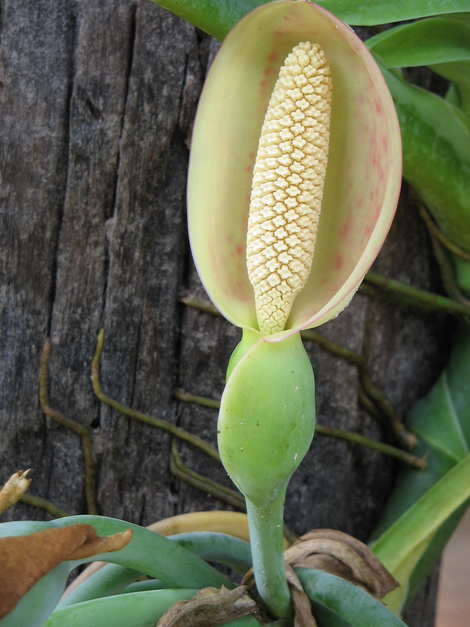 Syngonium podophyllum close-up